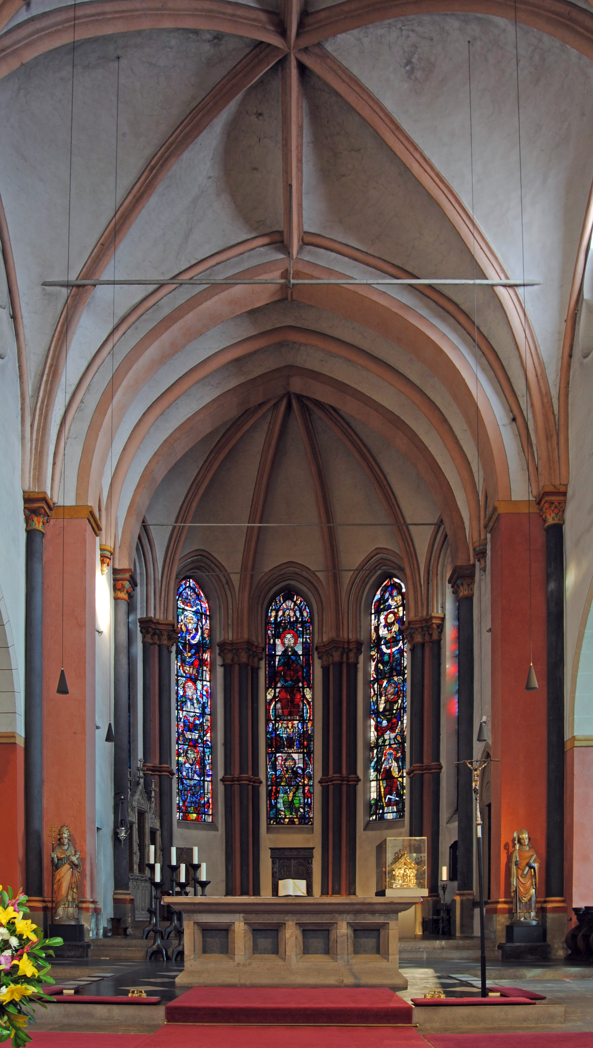 Düsseldorf (North Rhine-Westphalia, Germany) – district Kaiserswerth – Saint Suitbert Church – interior, viewing to the choir This image shows a heritage building in Germany, located in the North Rhine-Westphalian city Düsseldorf (no. 295). This photograph was taken with a Nikon D3000